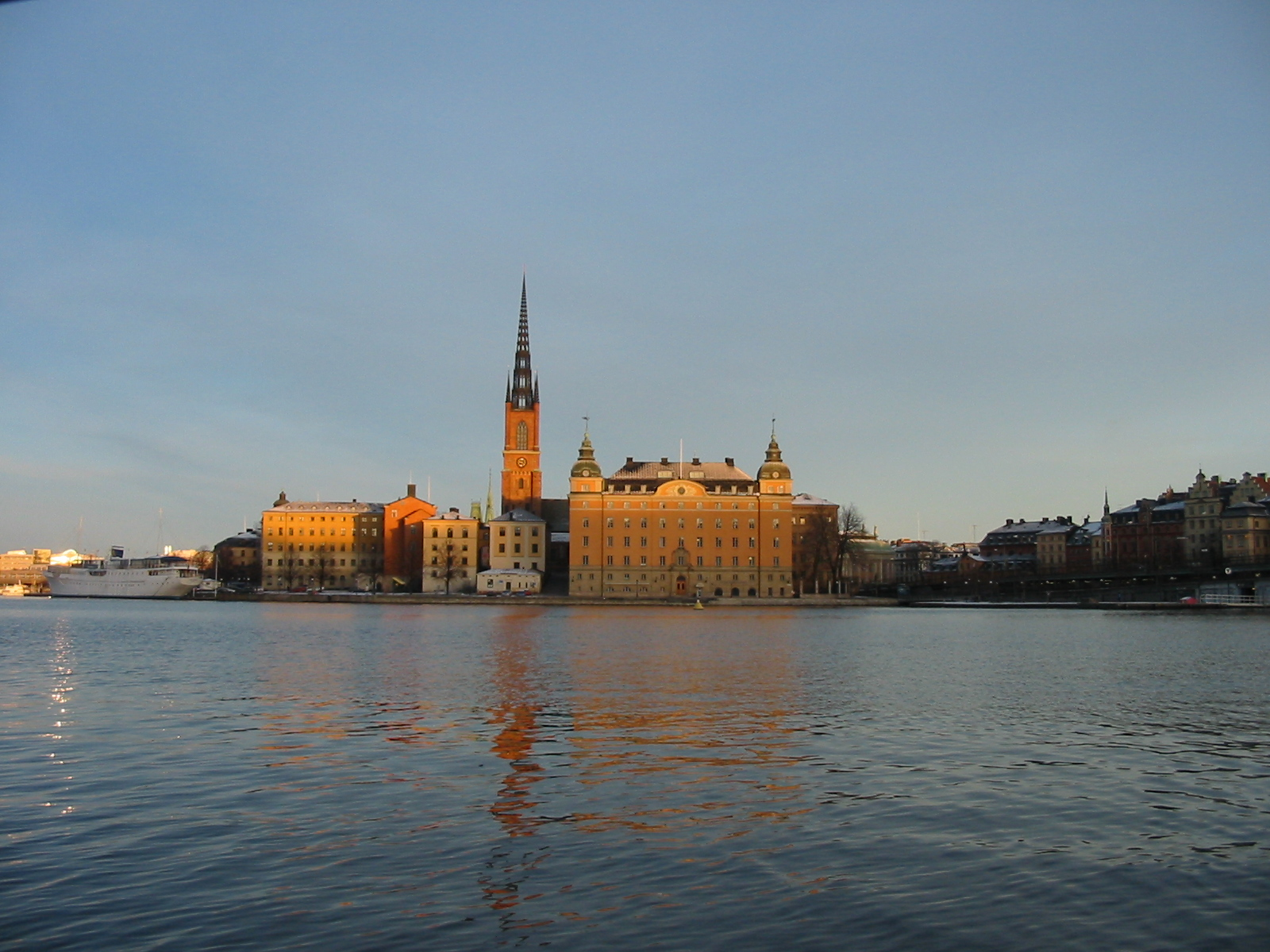 Riddarholmen with Riddarholmskyrkan in Stockholm, Sweden.